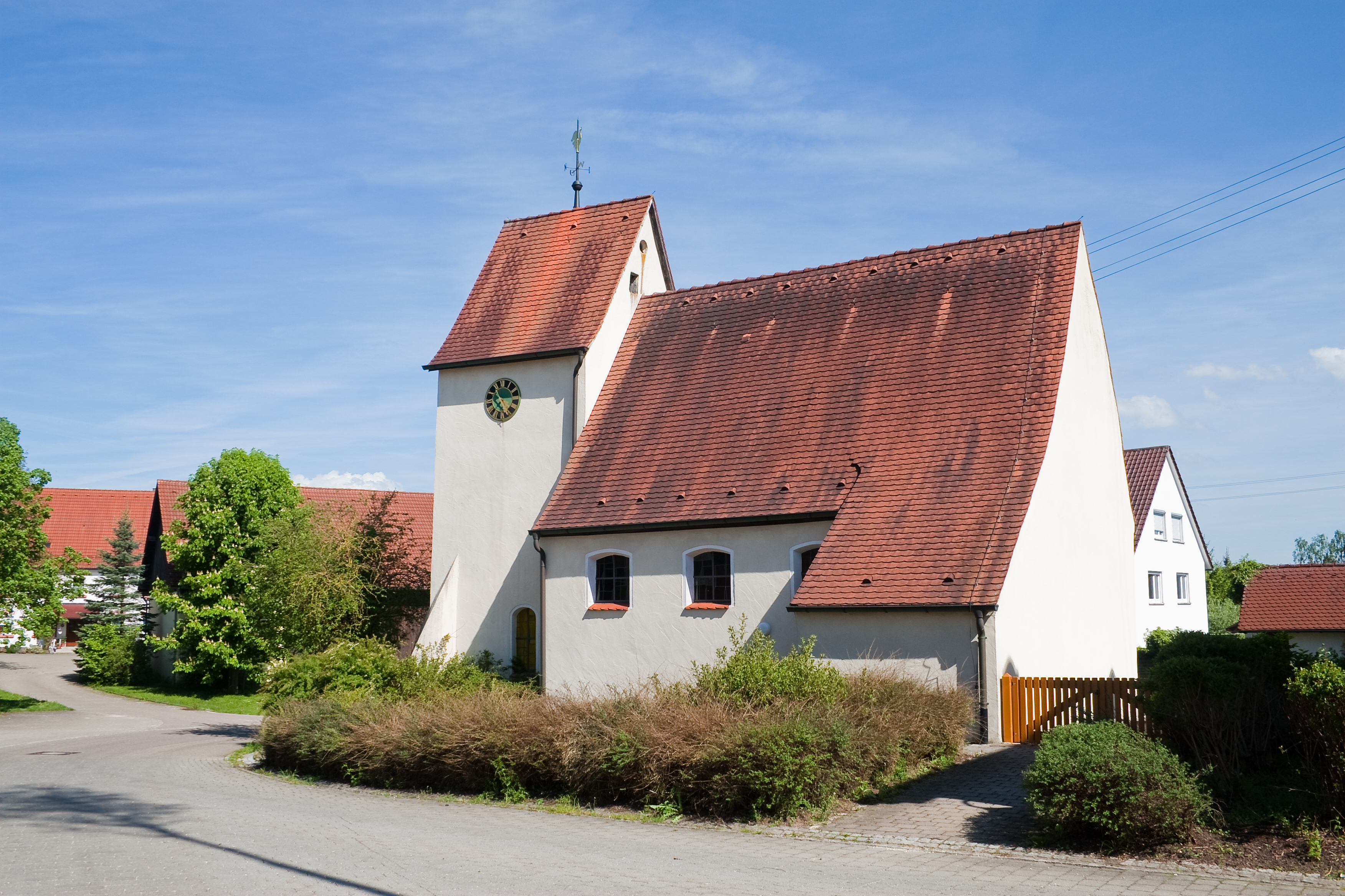 Nord-west view of the small church of Sinabronn, constructed at the begin of the 15th century, dedicated to James the Greater and the Holy Cross, and restored in 1962. This church is located at one of the German Way of St. James to Santiago de Compostela.